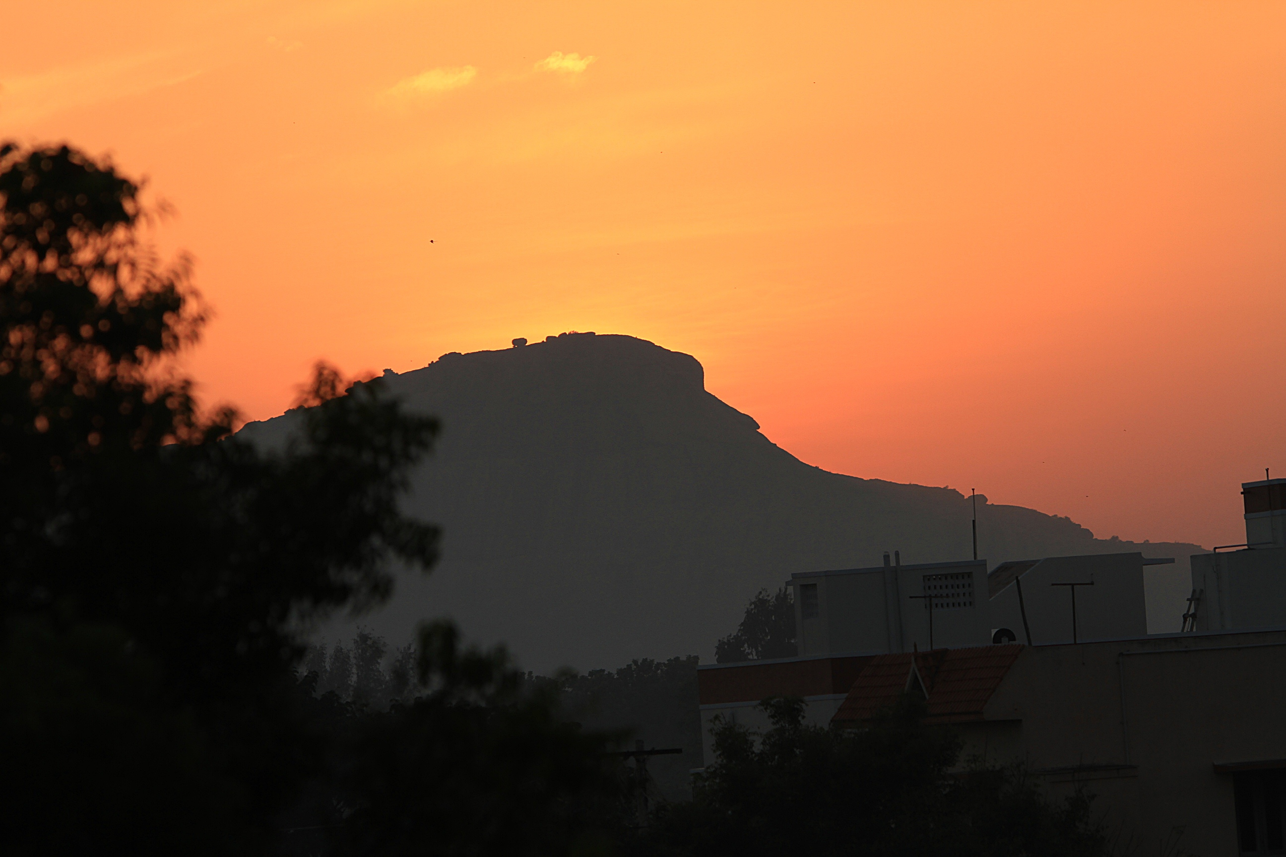 Othakadai, Madurai. Othakadai is a panchayat town in Madurai district in the Indian state of Tamil Nadu.